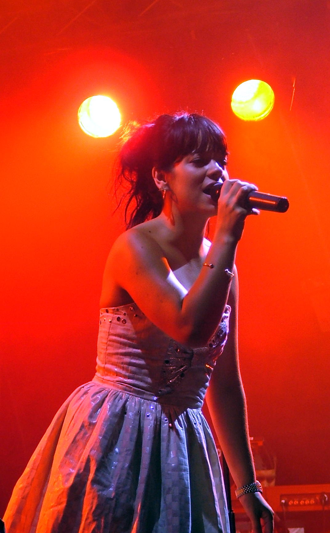 Lily Allen - In the Red - Live at Somerset House, London England - July 16th 2007